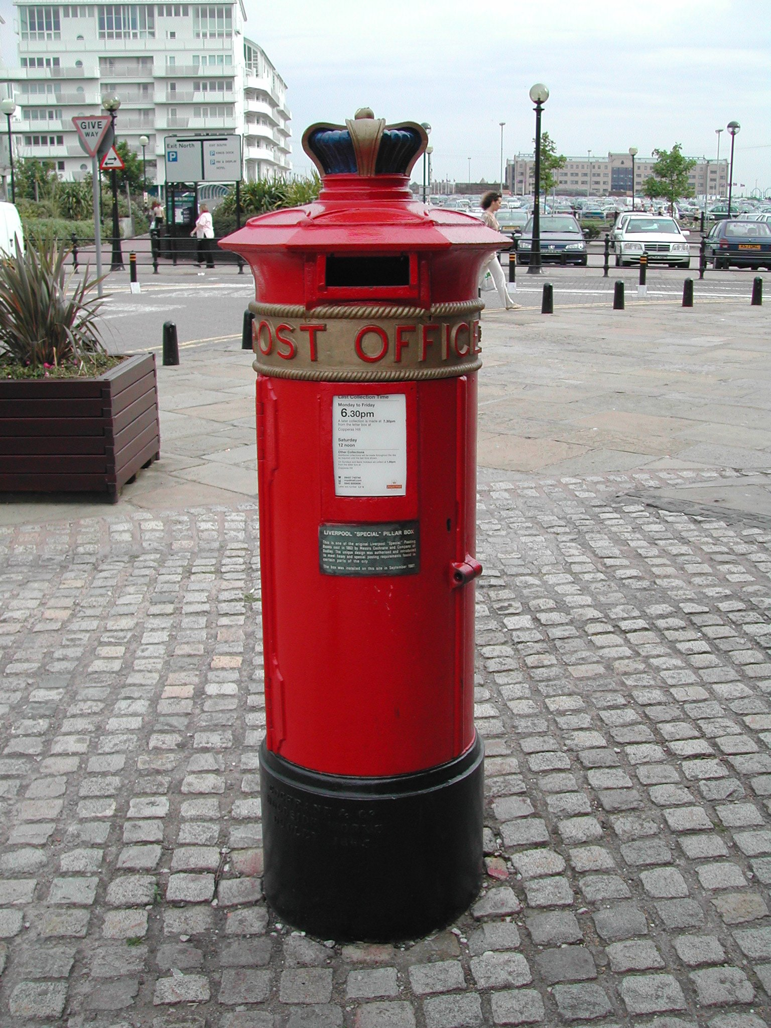 Author: Steve Knight aka Kitmaster Taken: Liverpool Albert Dock 24th August 2004 On: Coolpix 885